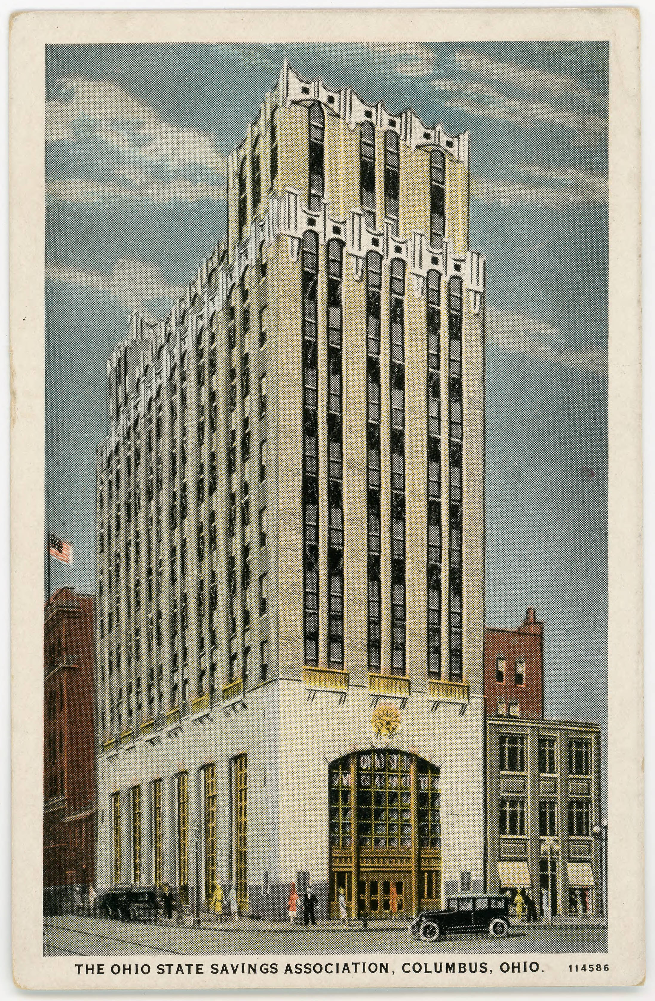 "A colorized postcard of the Ohio State Savings Association building on the southwest corner of North 3rd Street and East Gay Street. The 12-story office building was finished the same year as the LeVequeTower. It's 3-story base is covered by litholite, a cast stone material. Its cornice is decorated with white glazed terra cotta and marble ornamentation. The building later became known as the Law and Finance building."